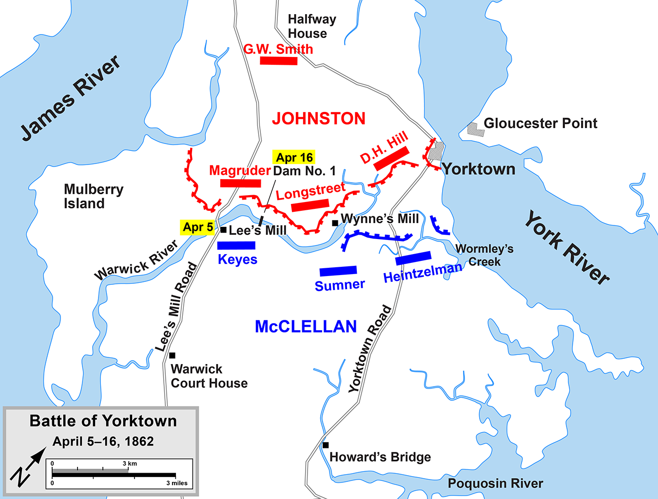 Map of the Battle of Yorktown of the Peninsula Campaign of the American Civil War. Drawn in Adobe Illustrator CS6 by Hal Jespersen. Graphic source file is available at